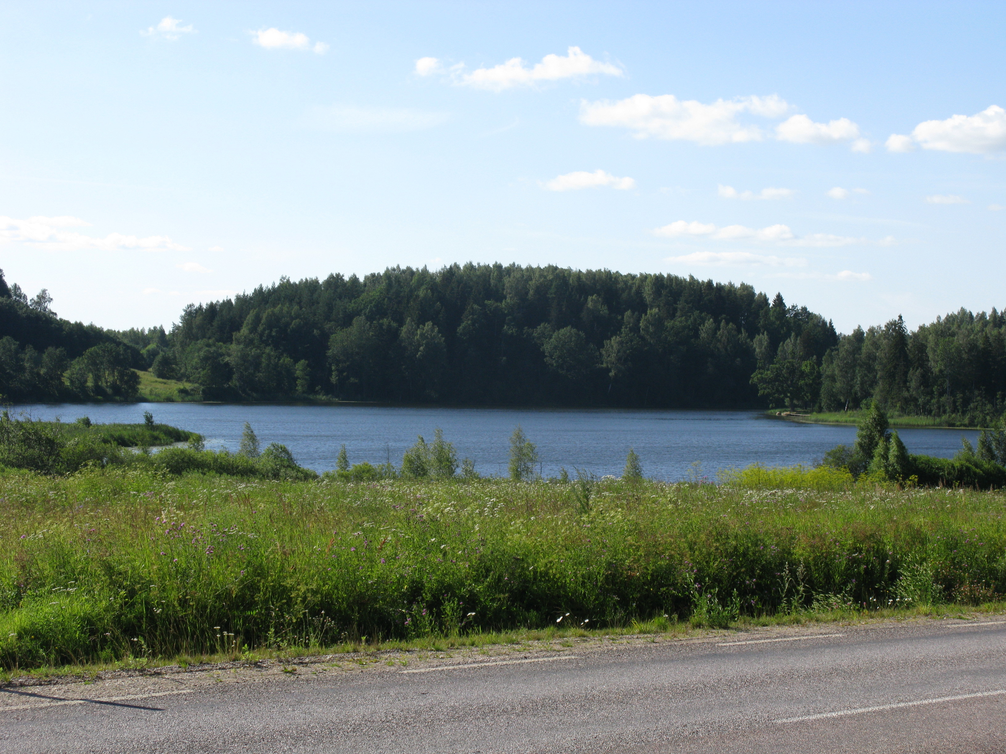 Lake Pilkuse, located in Valga County, Estonia.